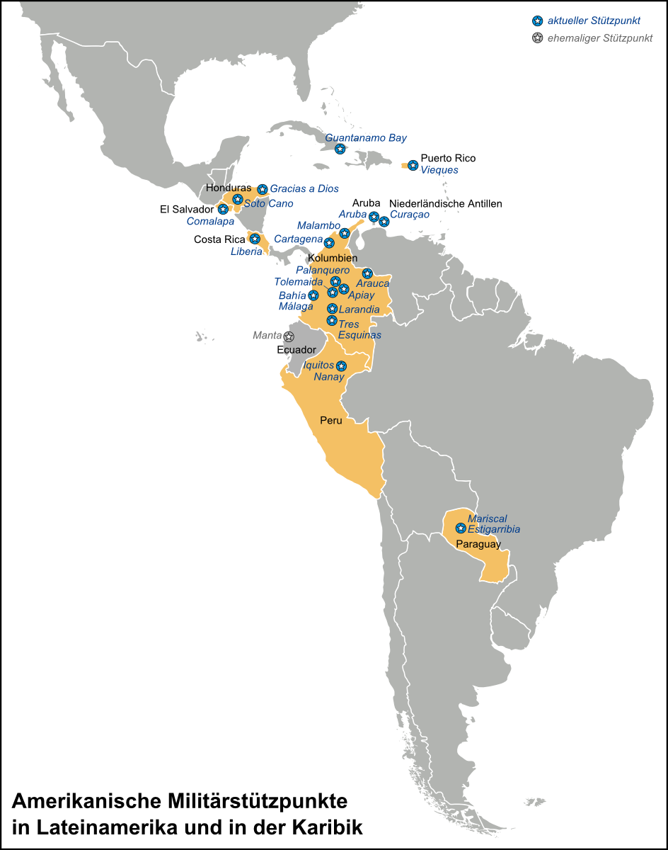 U.S. Military Bases in Latin America and the Caribbean